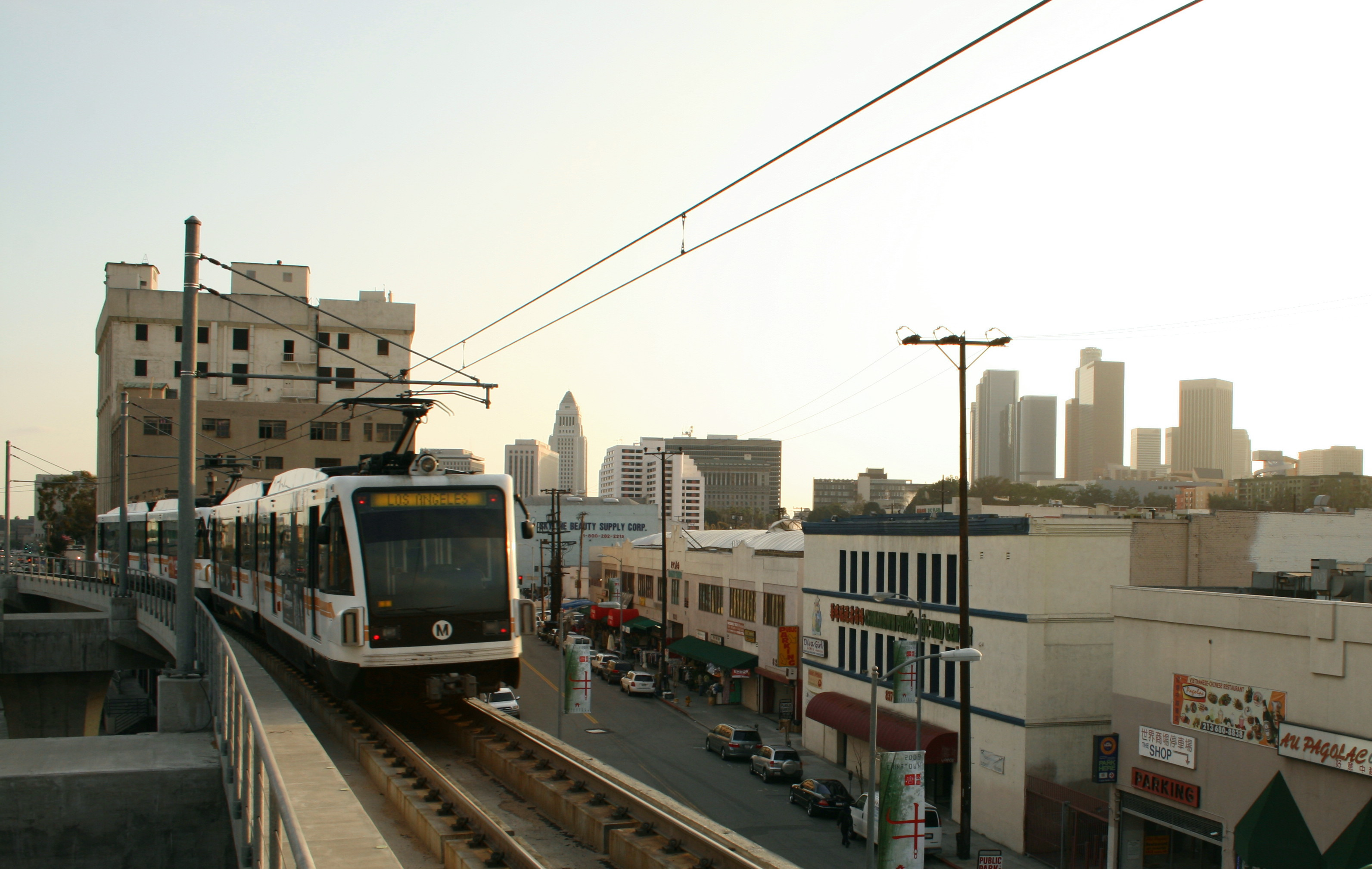 Metro Gold Line train leaving China Town to Union Station Down Town Los Angeles, California